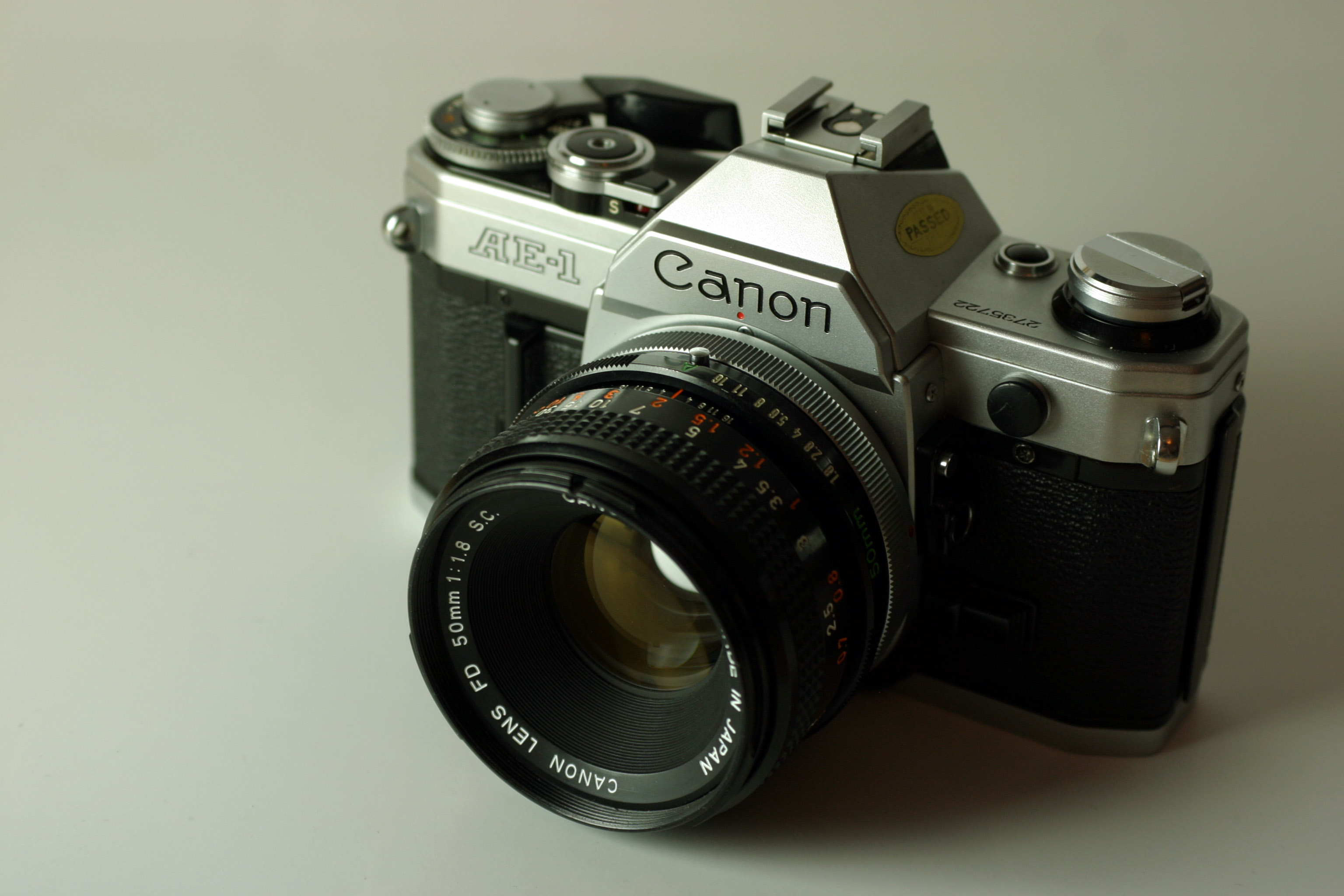 Canon Ae-1 analog camera with 50mm Canon f/1.8 Lens.